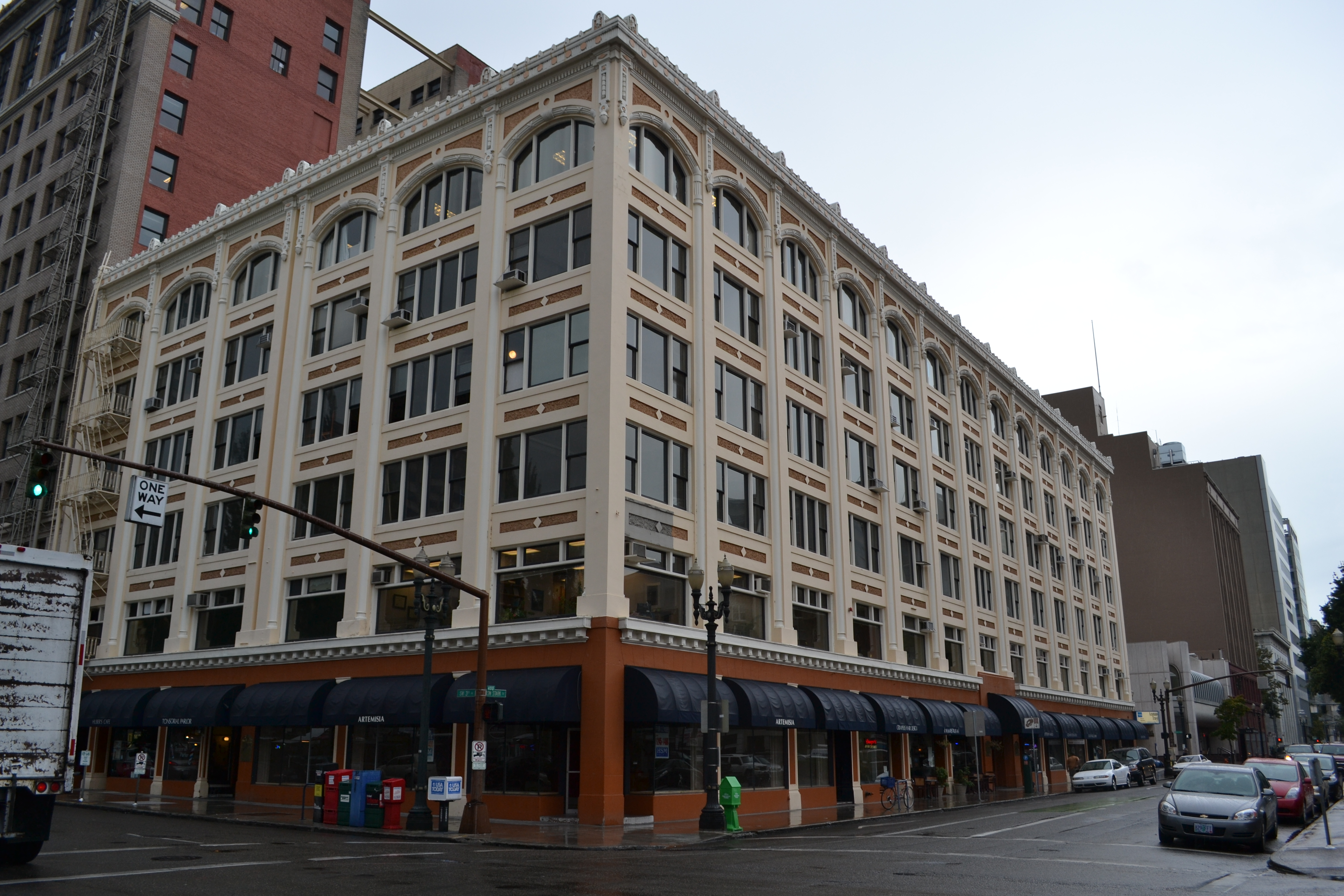 Oregon Pioneer Building (Portland, Oregon) home of Huber's Restaurant, SW Third and Stark